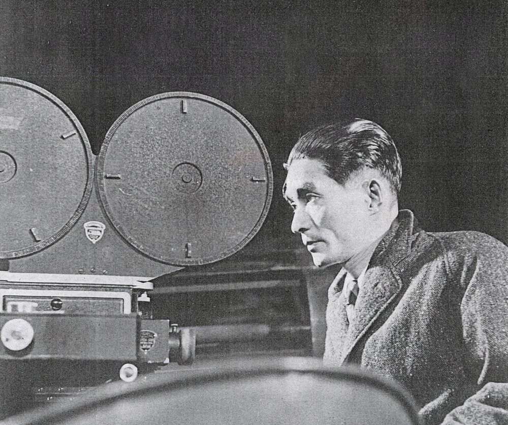 Photo of the film director Shirō Toyoda